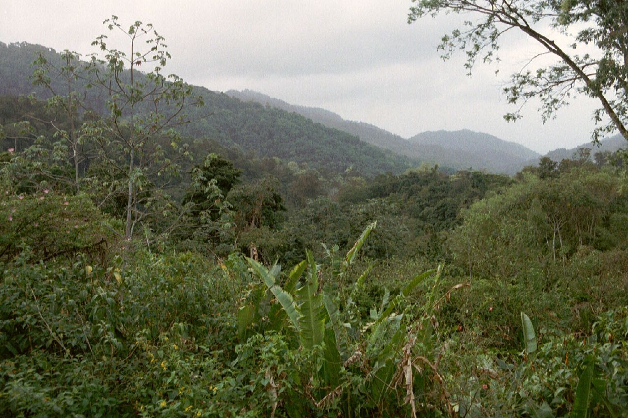 View from the balcony at Asa Wright Nature Centre, Northern Range, Trinidad, Trinidad and Tobago.